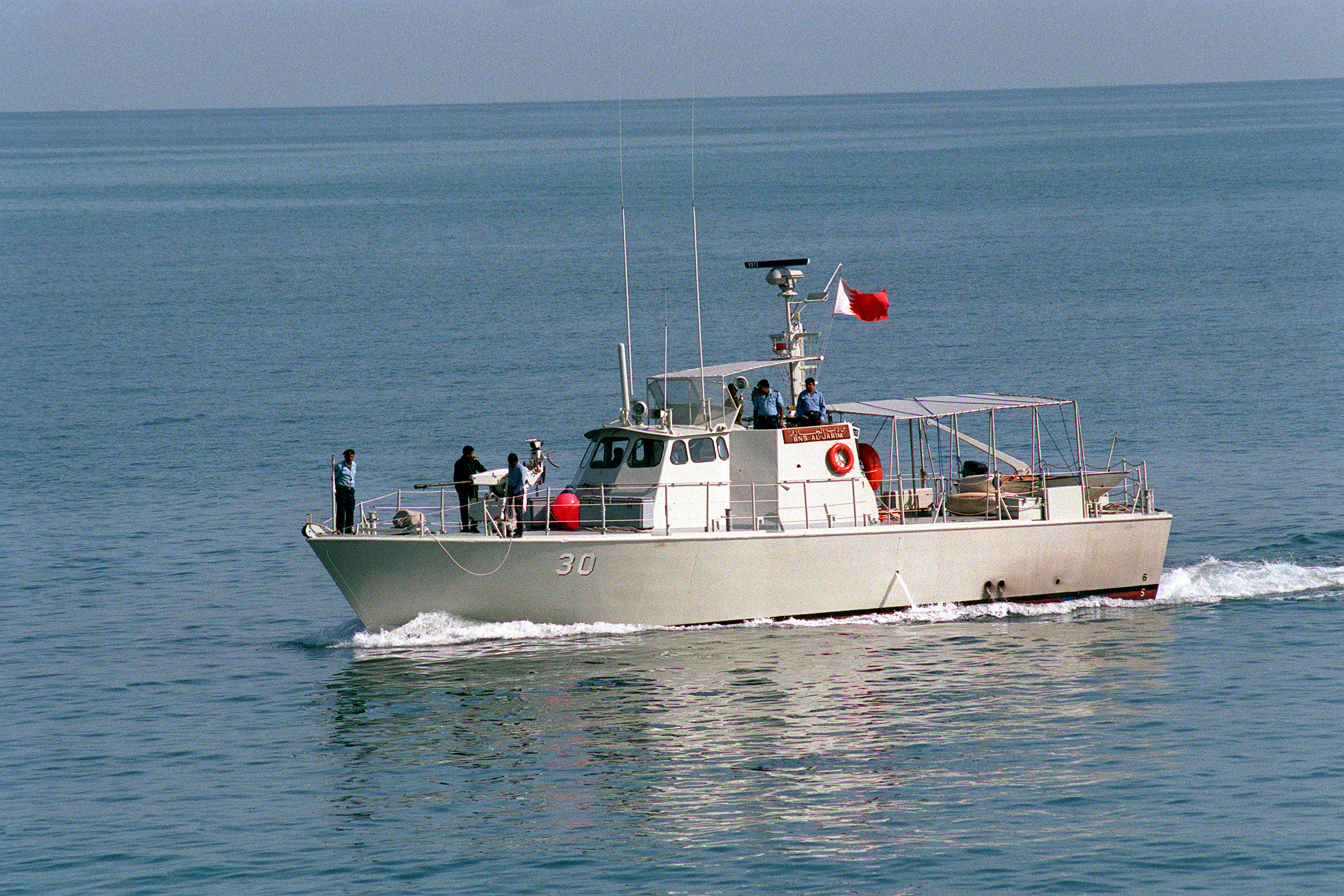 The Bahraini fast attack craft BNS AL JARIM (FPB 30) patrols in the Persian Gulf during Operation Desert Shield.